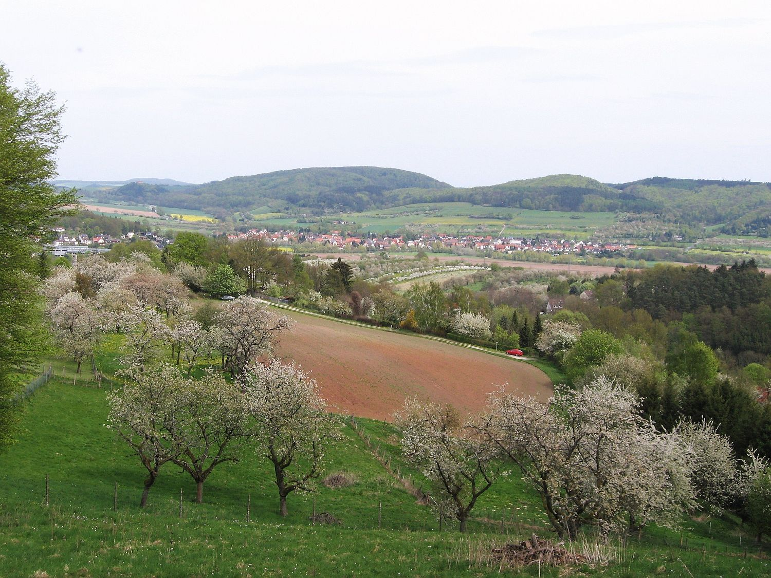 Germany / Hesse: town Witzenhausen: Mountaintop view of Witzenhausen-Unterrieden at the time of cherry blossoming